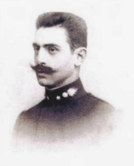 A cropped, re-sized and slightly retouched picture, showing Pavlos Melas (March 29, 1870 – October 13, 1904) Greek officer of the Hellenic Army